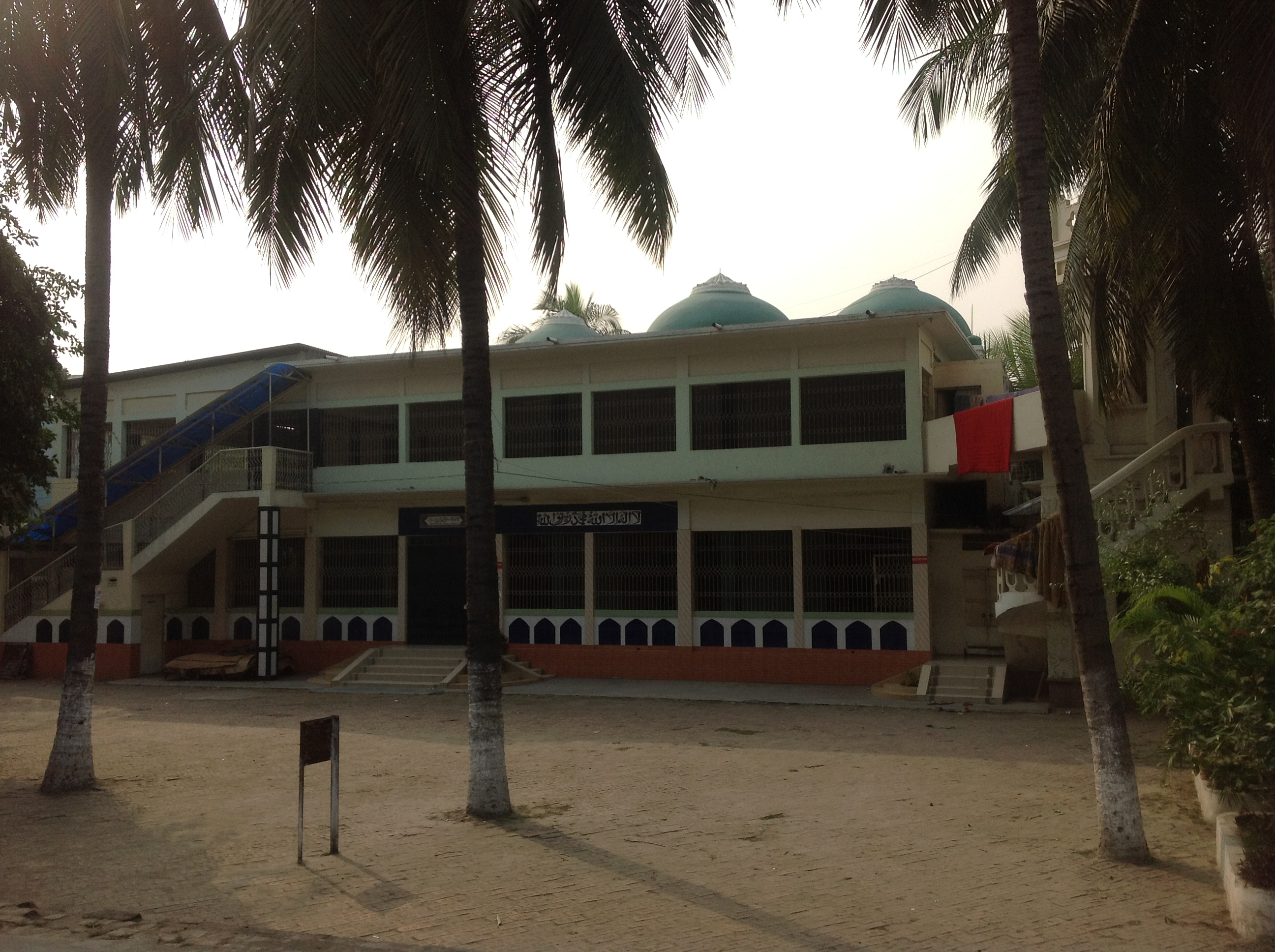 Bibi Maryam entrance